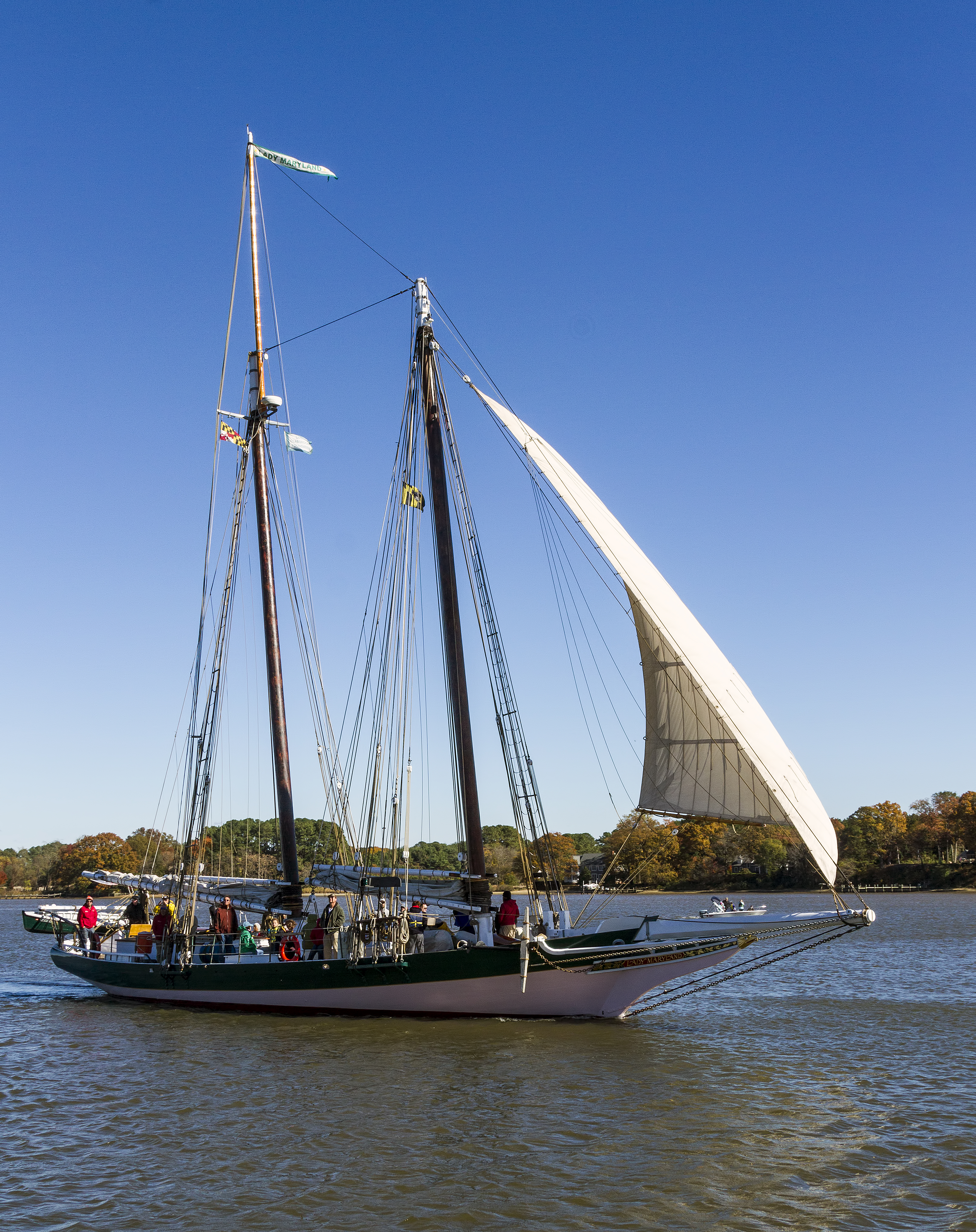 The pungy Lady Maryland on the Chester River near Chestertown, Maryland, USA